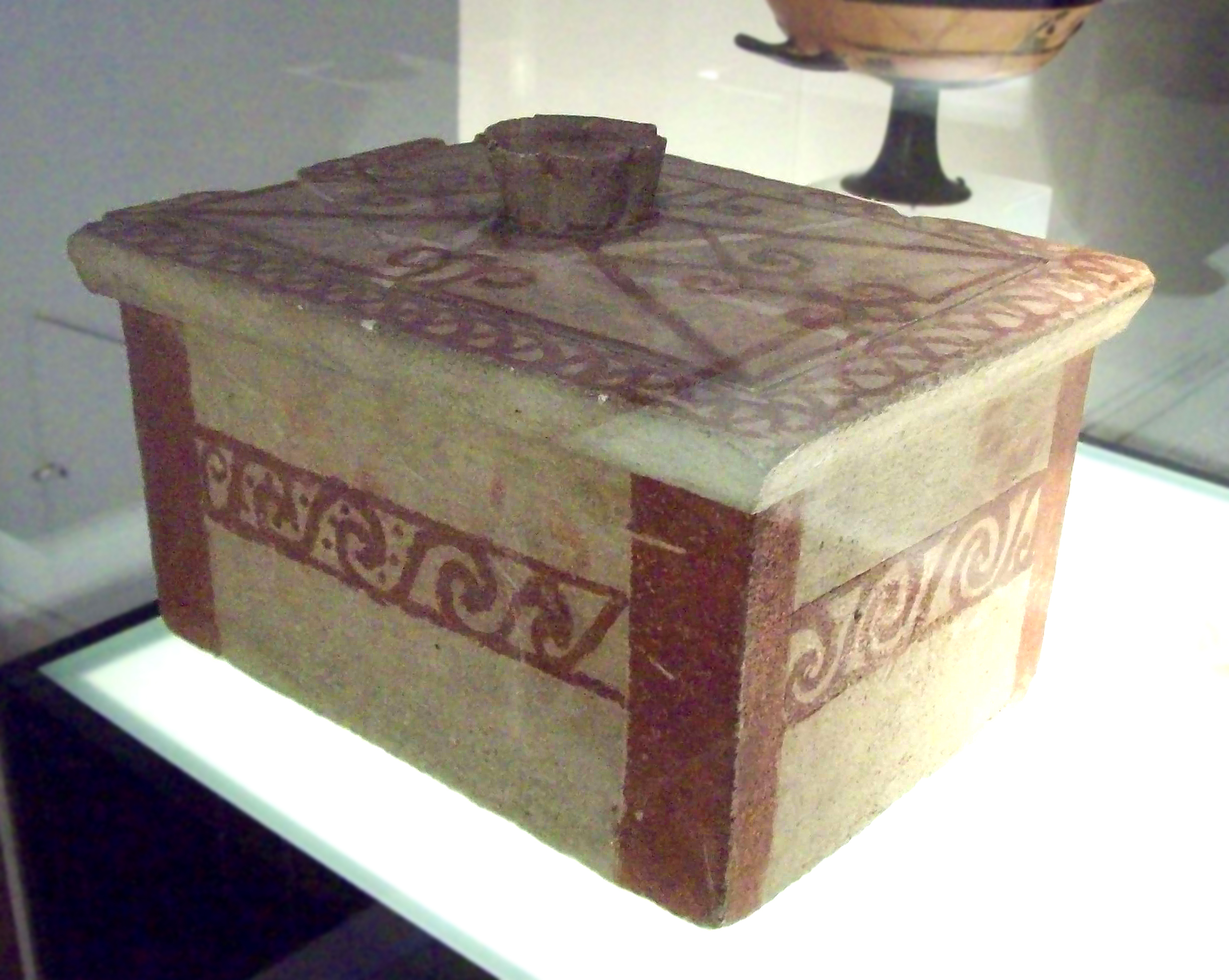 Iberian burial case made of limestone and decorated with red paint.